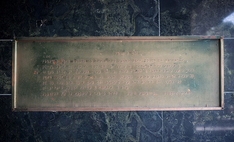 A braille blackboard in Mohebbi School for the Blind, Iran, Tehran.